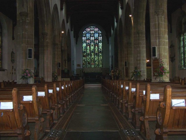 Church of St Margaret in Lowestoft, Suffolk, England. A Grade I listed medieval church. This is a view of the interior.